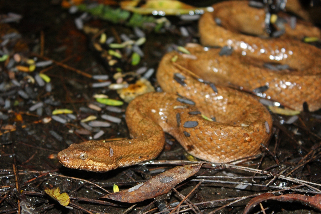 This very calm individual was found next to small swampy forest pond at the back of Playa Larga, Matanzas Province. We stayed watching & photographing it for a while and it didn't move at all.